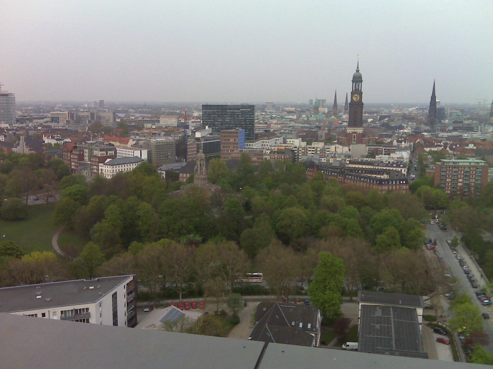 Bismarck-Monument in Hamburg from above